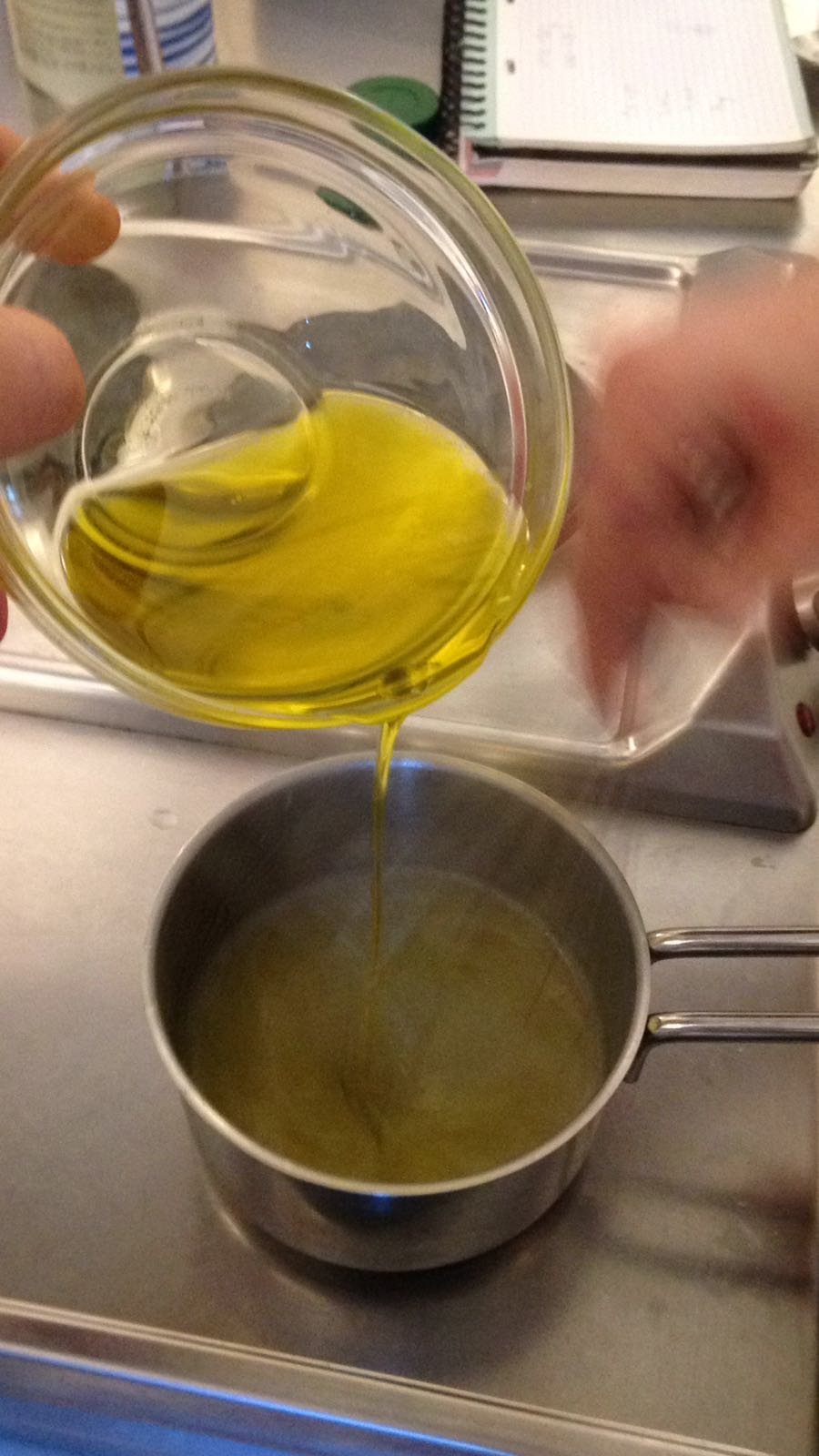 Afegint l'oli d'oliva a la barreja d'aigua amb texturitzants.